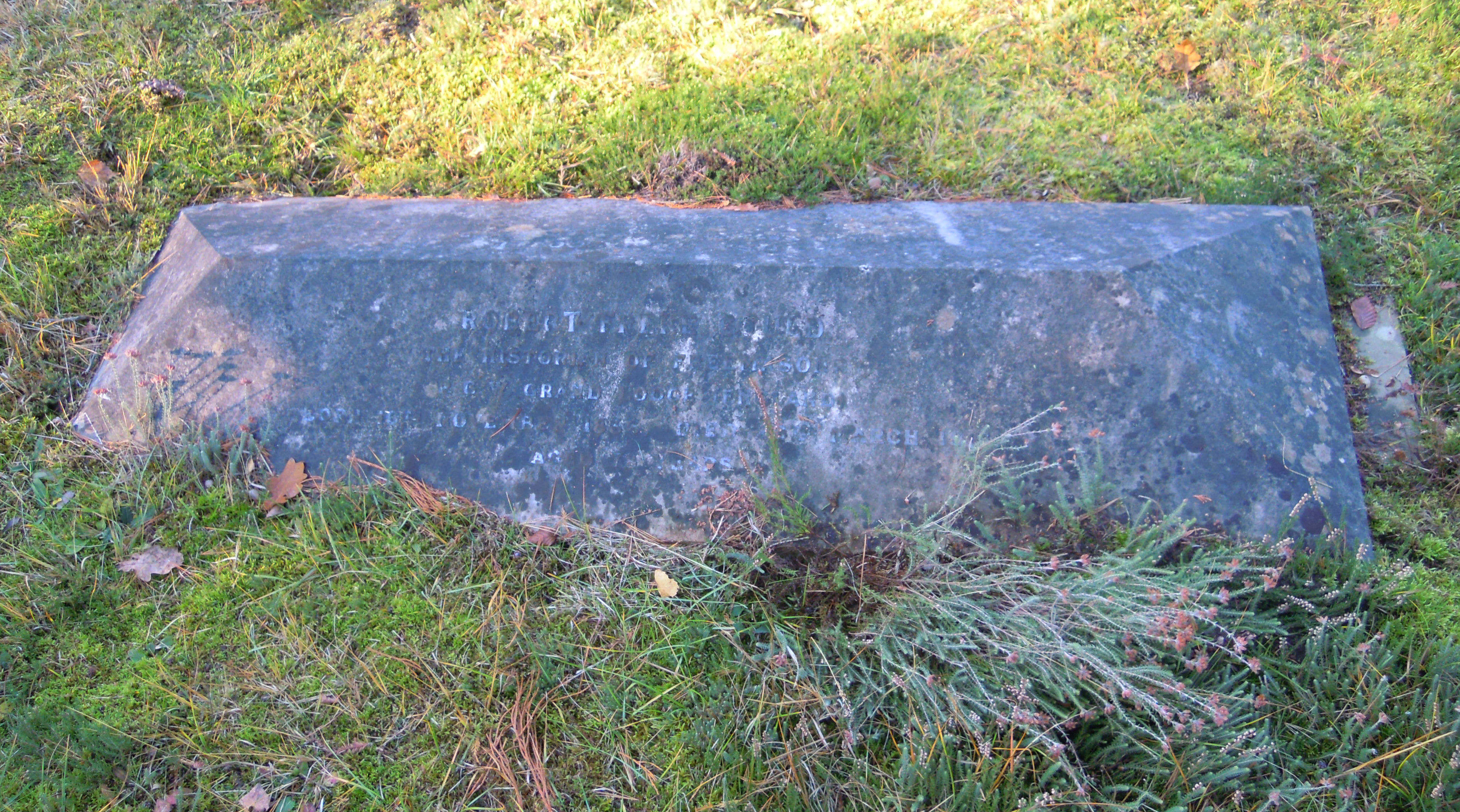 Grave of Robert Freke Gould (1836-1915) in Brookwood Cemetery